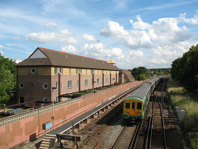 Railway south of Bellingham, near to Catford, Lewisham, Great Britain. The train had just called at Bellingham station TQ3772 : Bellingham station on its way to Sevenoaks. It is a class 319 "Thameslink" unit operatd by First Capital Connect, who had taken over the operation of this "Catford loop line" from Southeastern a few months earlier. The 1962 view of the station TQ3772 : Bellingham Station shows a much earlier generation of electric unit in the siding to the left of this photo. The residential block to the left is Leeds Court.